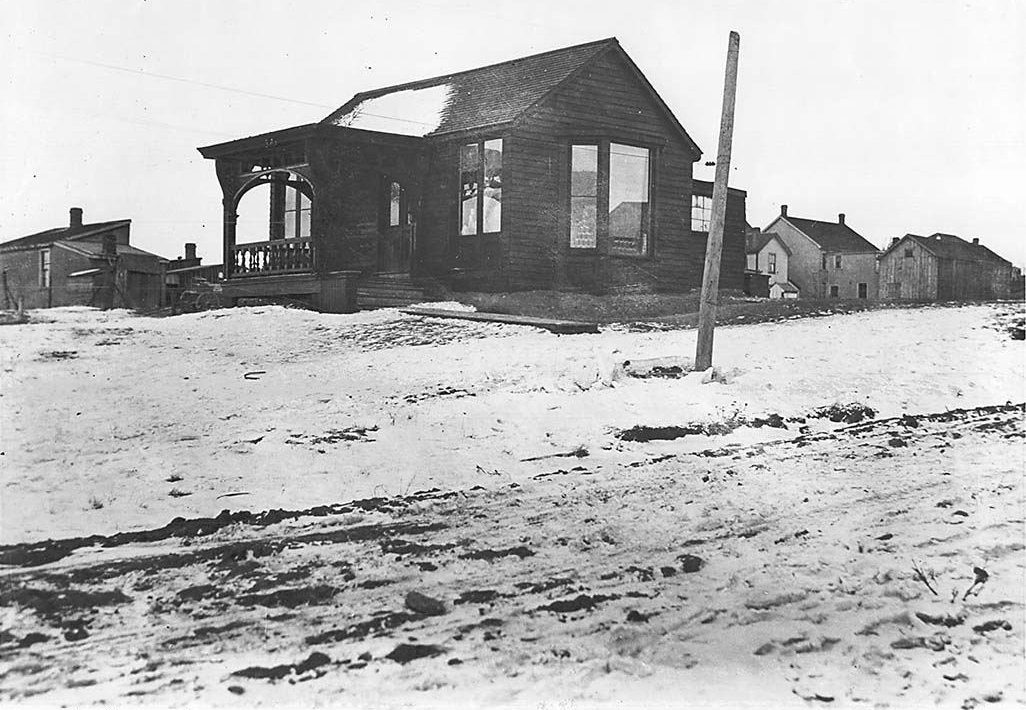 Williams butcher and grocery store, Deer Park. Archival note on photo reads: "main store at that time". (Toronto, Canada)